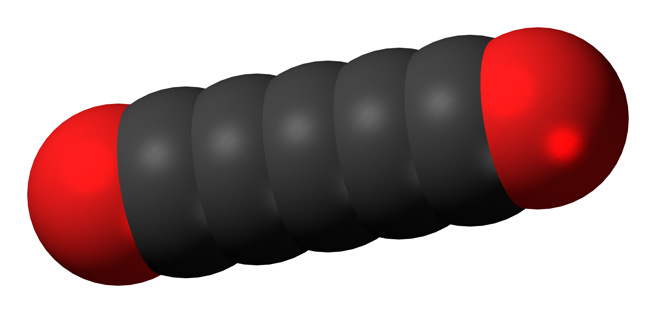 Space-filling model of the pentacarbon dioxide molecule, an oxocarbon. Colour code: Carbon, C: black Oxygen, O: red